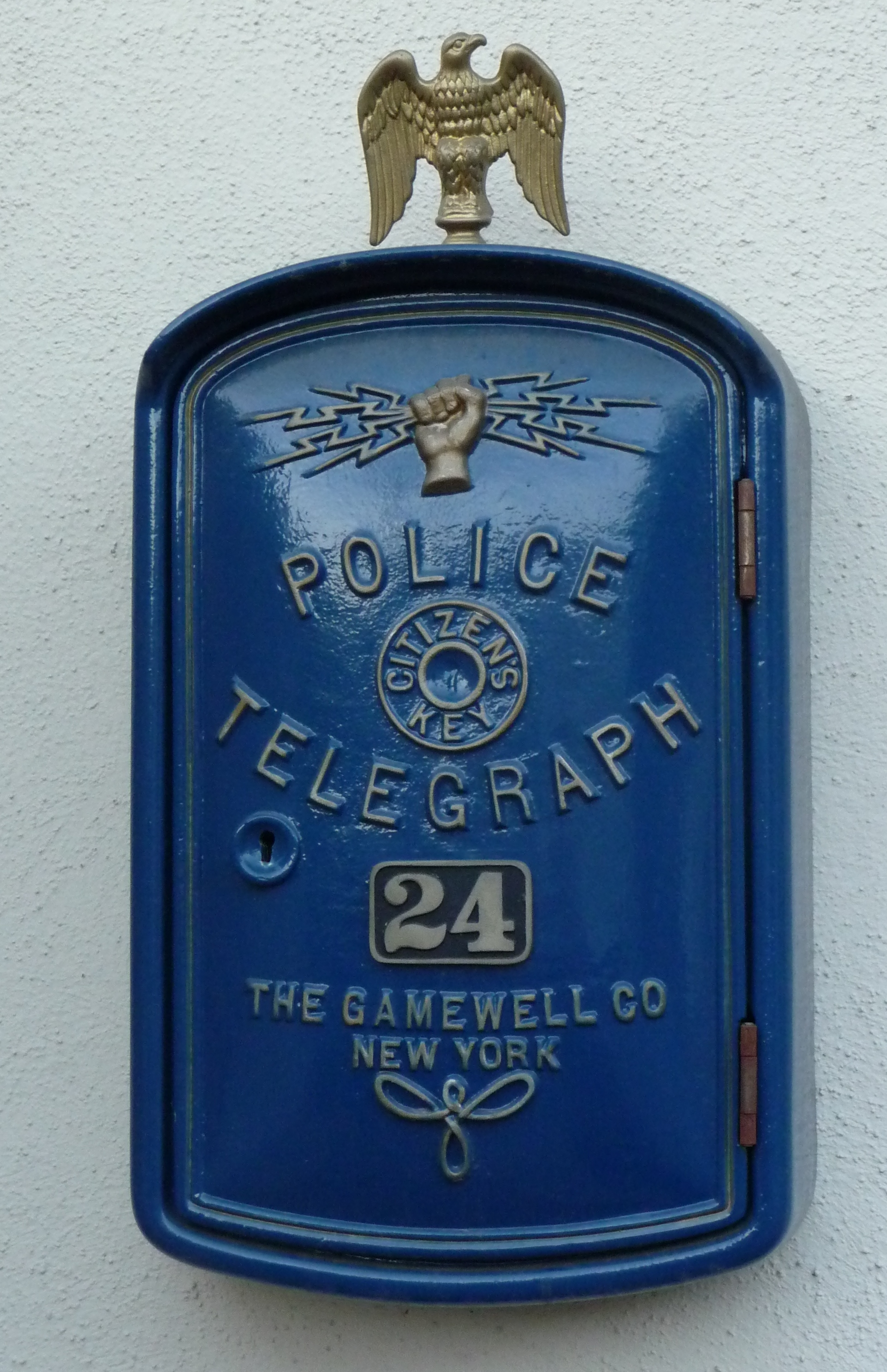 Los Angeles - Historic LAPD Academy - Police telegraph box